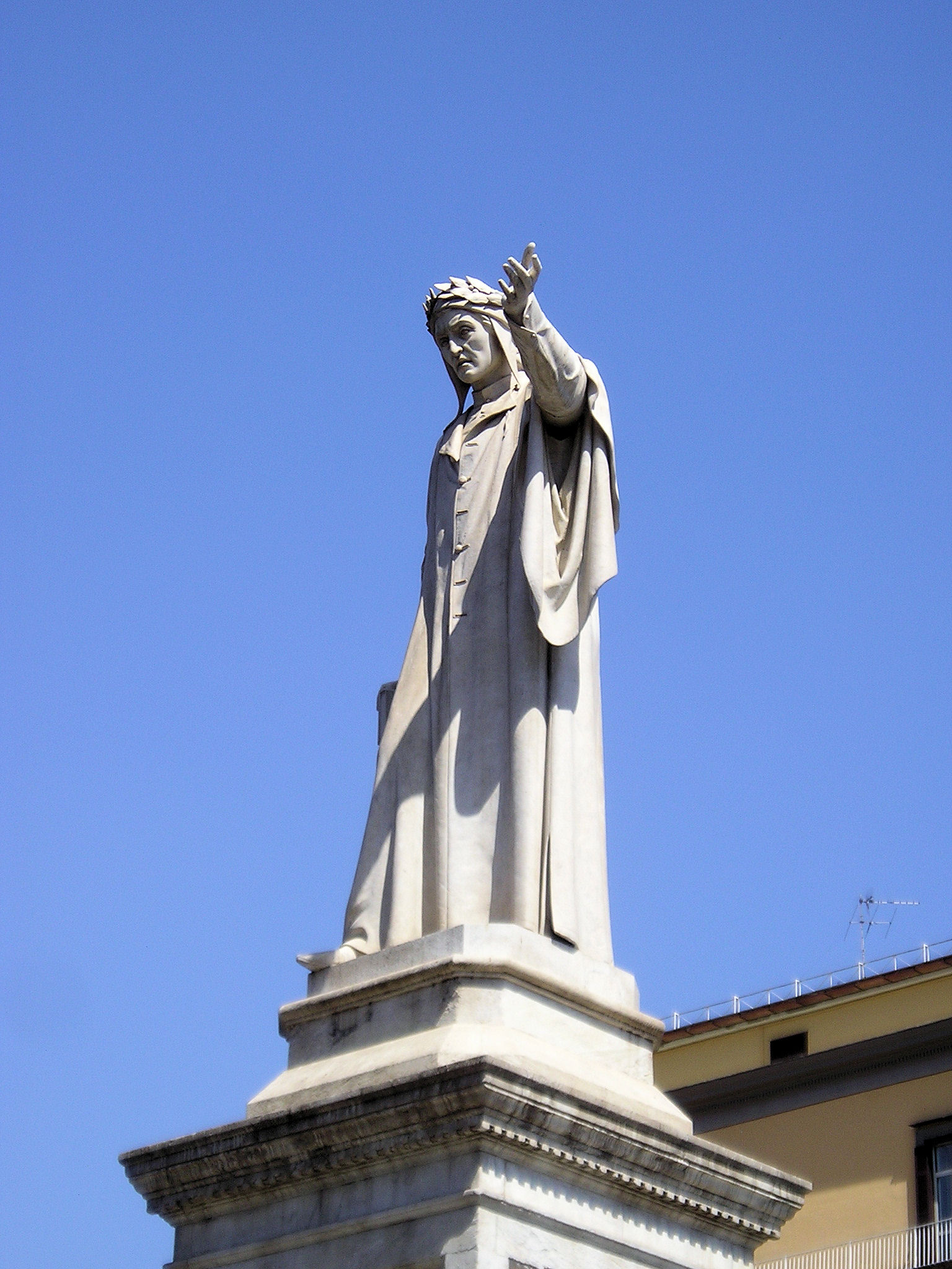 Statue of Dante Alighieri.